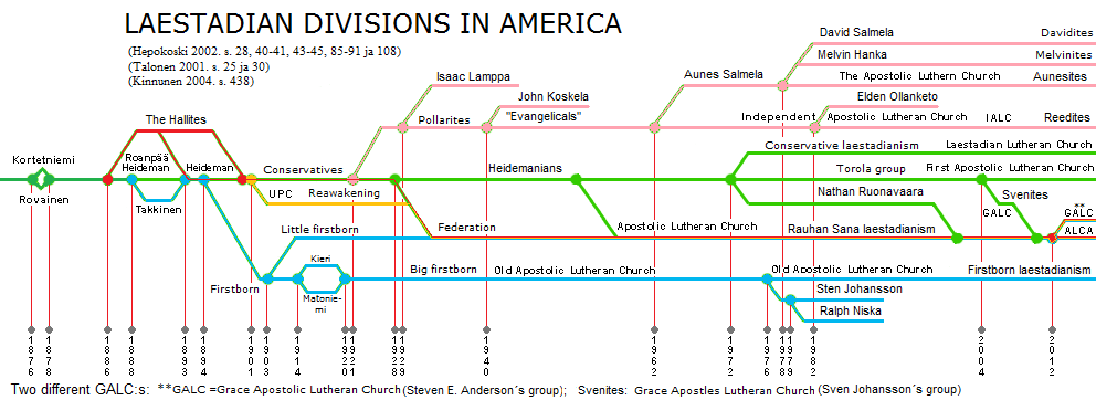 Family tree of laestadianism in America.